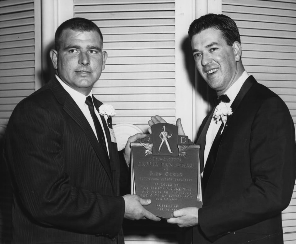 Mal Alberts and John Reger at the Pittsburgh Writers Dinner in 1961